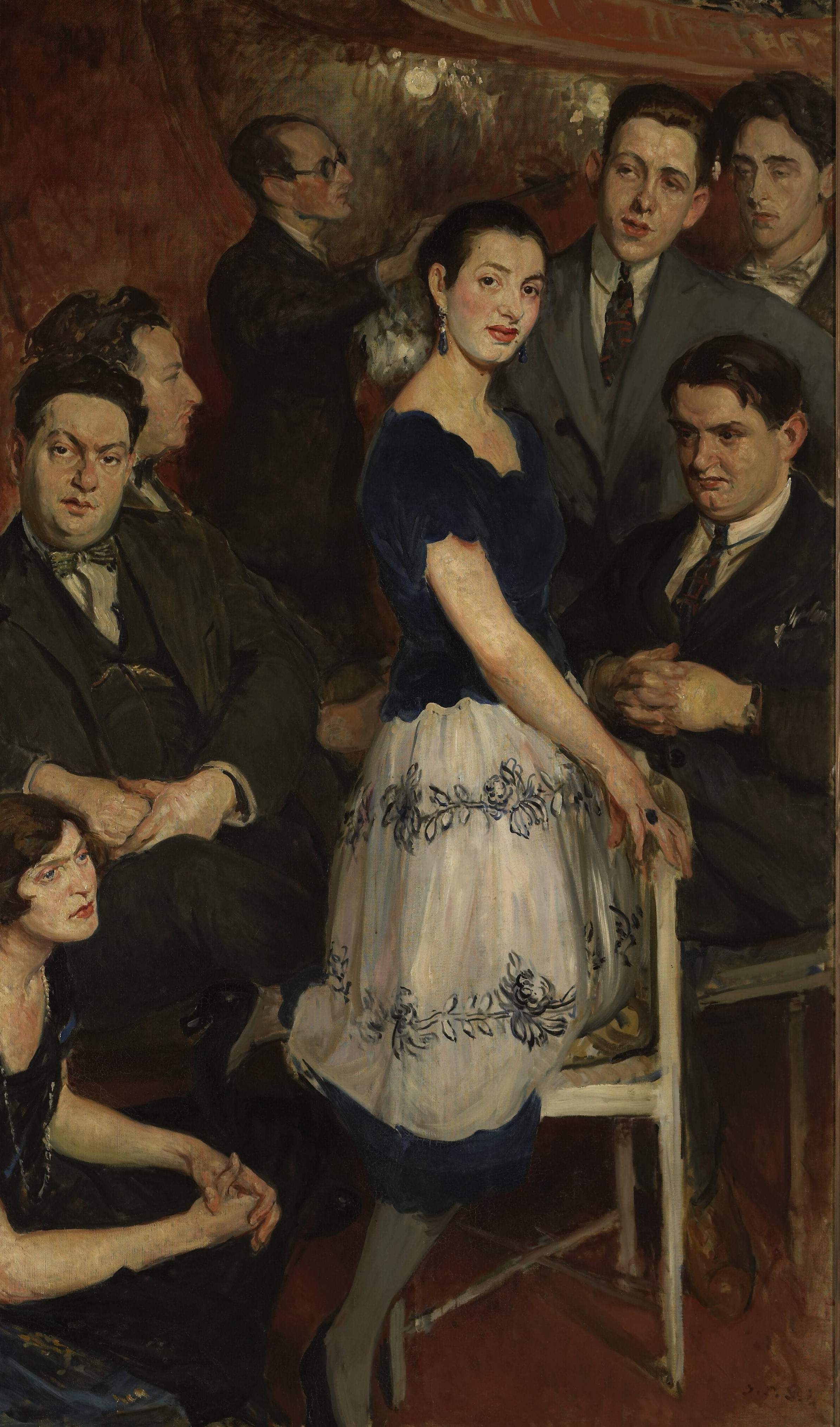 Le Groupe de six, oil on canvas, musée des beaux-arts de Rouen, France. In the center : pianist Marcelle Meyer. From bottom to top : Germaine Tailleferre, Darius Milhaud, Arthur Honegger, Jean Winer. On the right : Georges Auric, Francis Poulenc, Jean Cocteau. (Only five of Les Six are represented; Louis Durey was not present: see "Jacques-Émile Blanche et le Groupe des Six".)